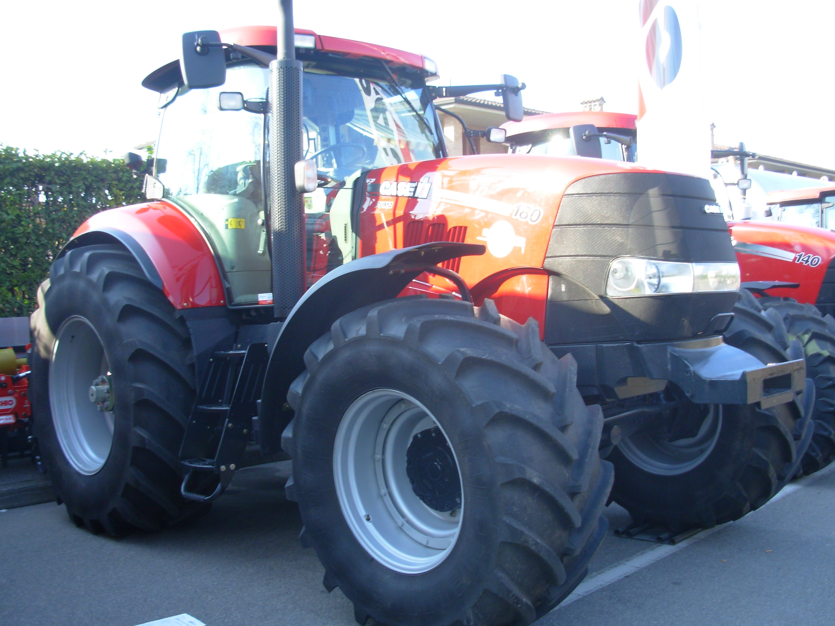 Tractor Case IH Puma 180